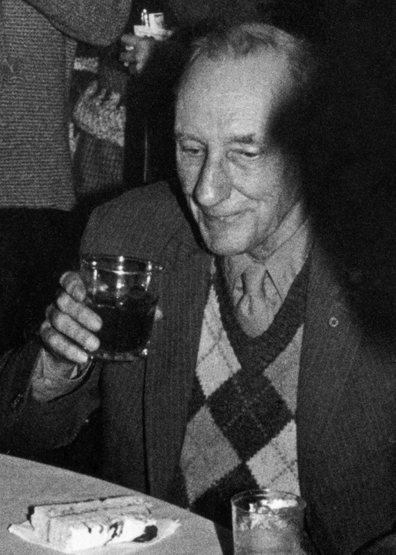 William Burroughs enjoying cake and alcohol at his 70th birthday.